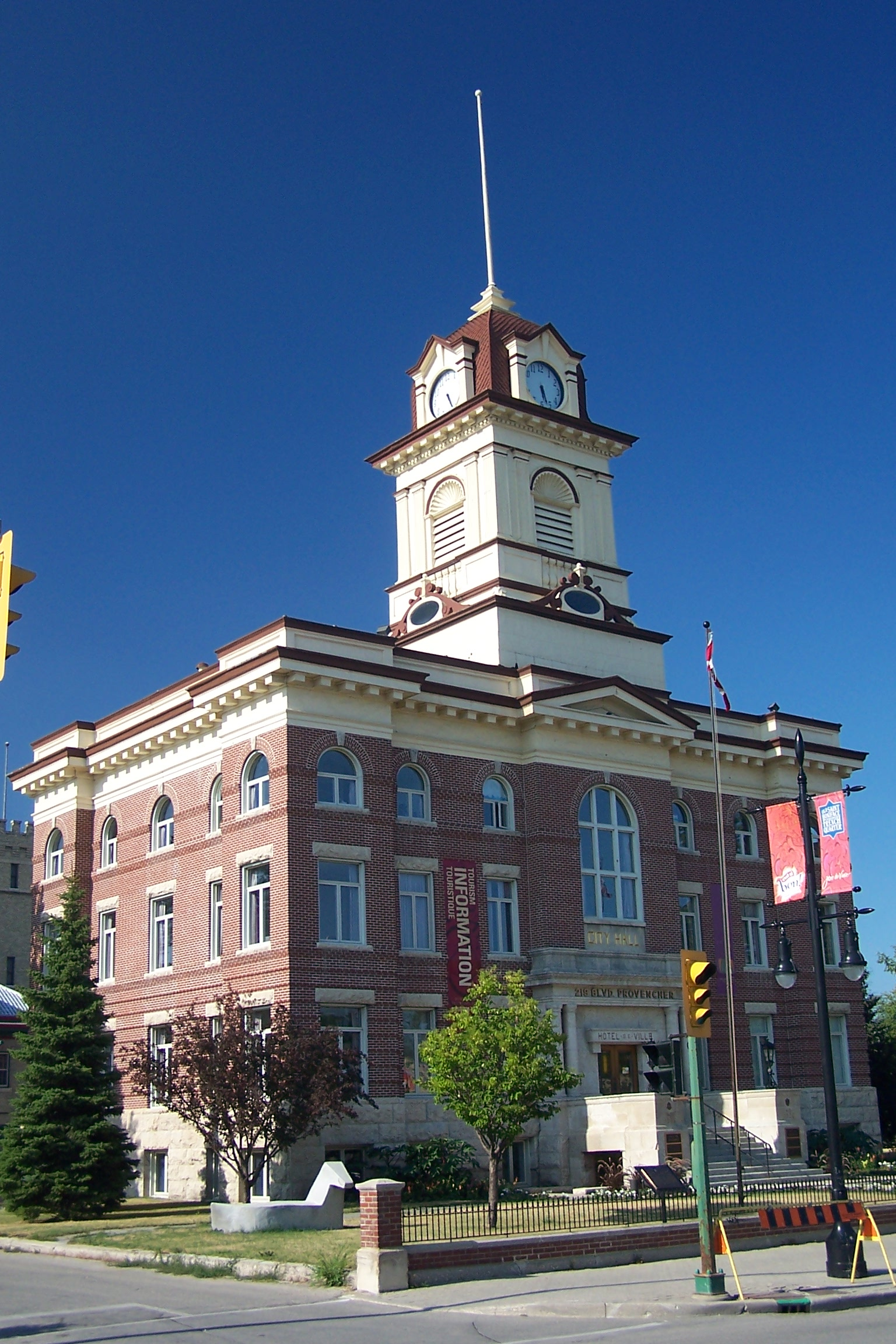 St. Boniface City Hall at 219 Provencher Boulevard